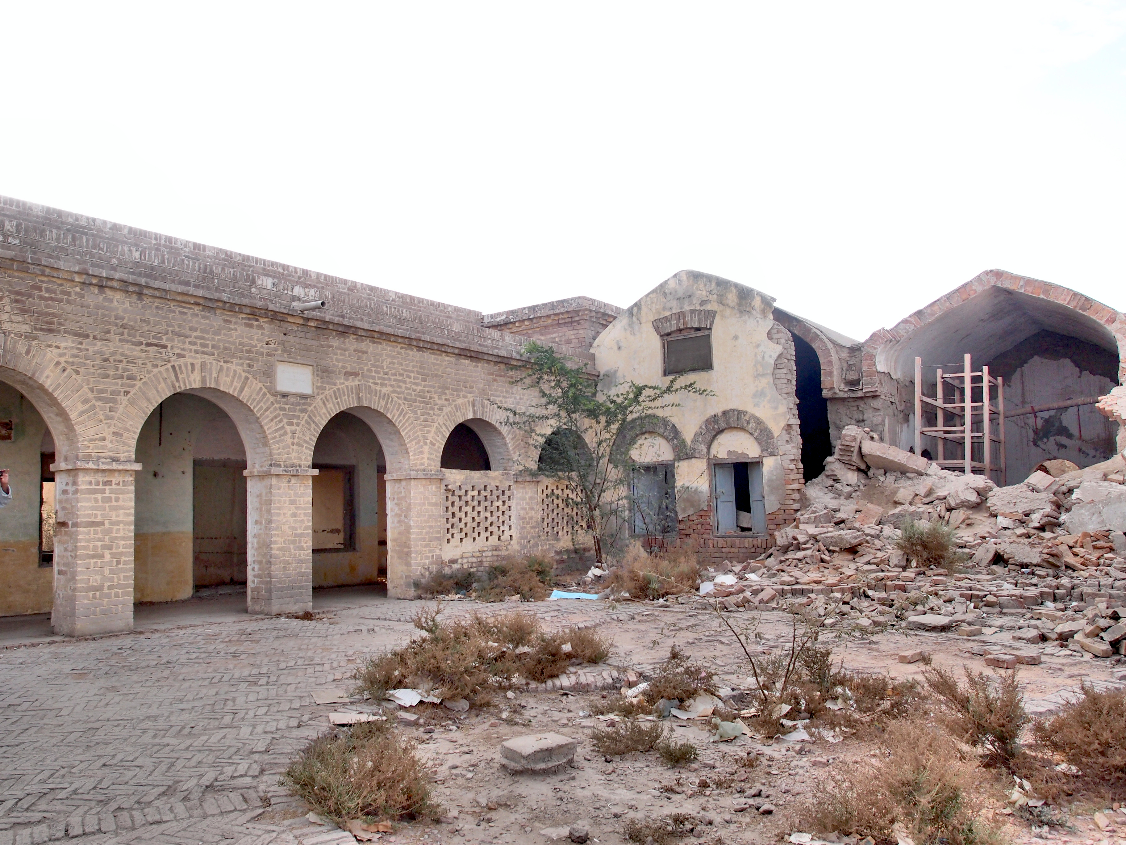 Umerkot Fort